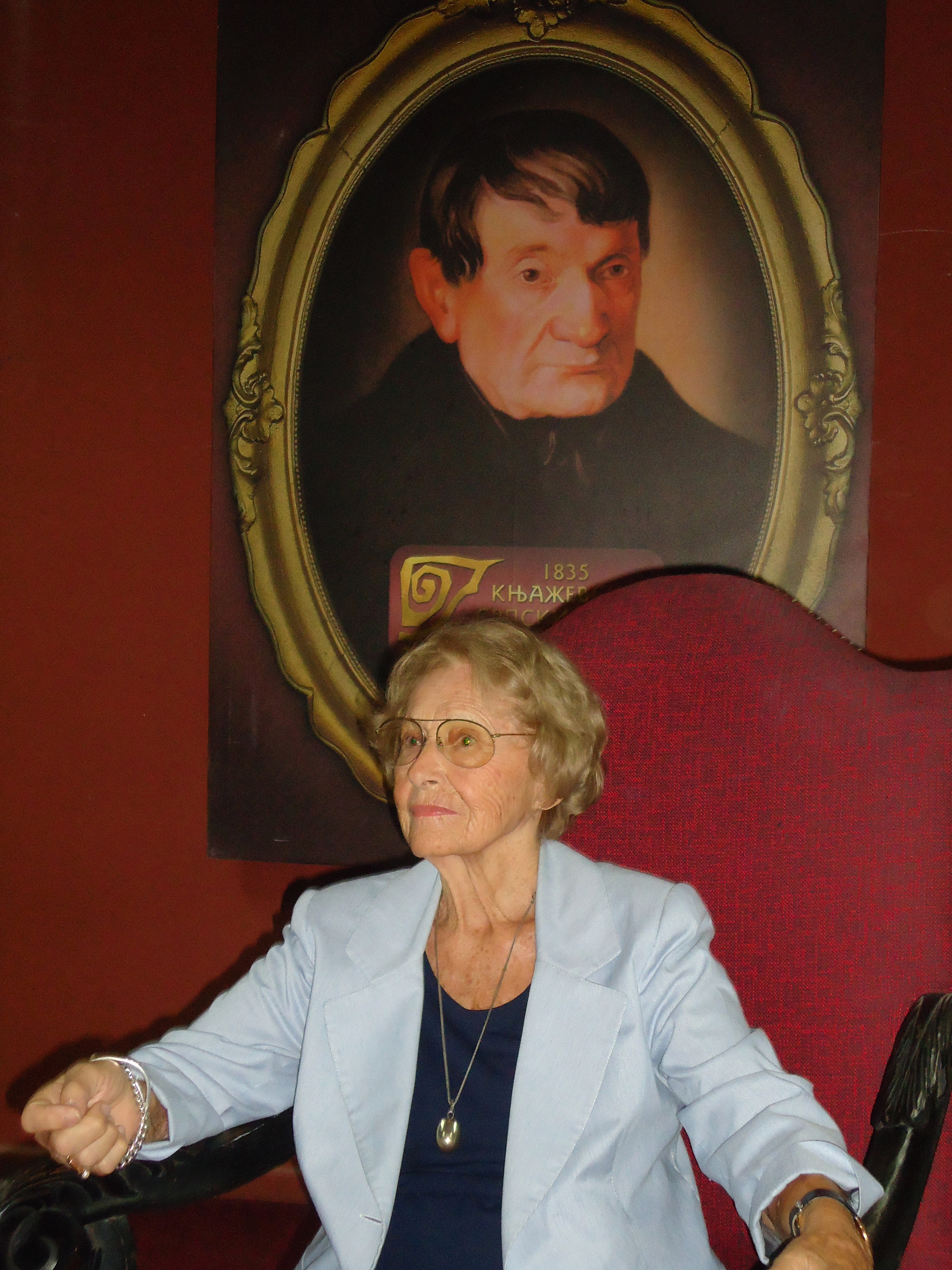 Depicted person: Renata Ulmanski – Serbian actress born in Yugoslavia